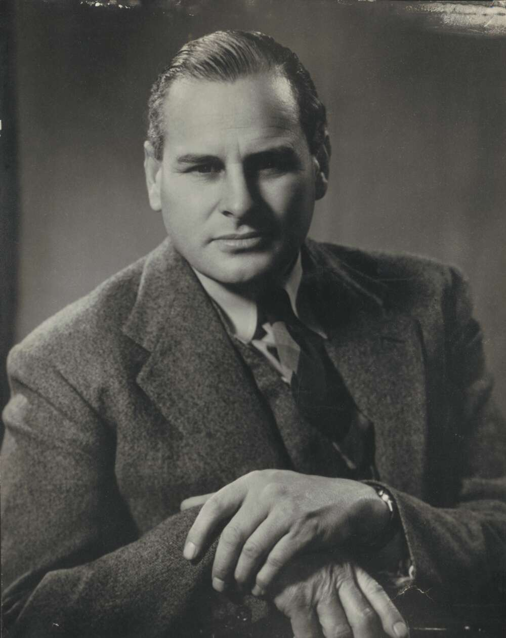 National Library of Australia: Portrait of Chester Wilmot by Athol Shmith, nla.pic-an12116088